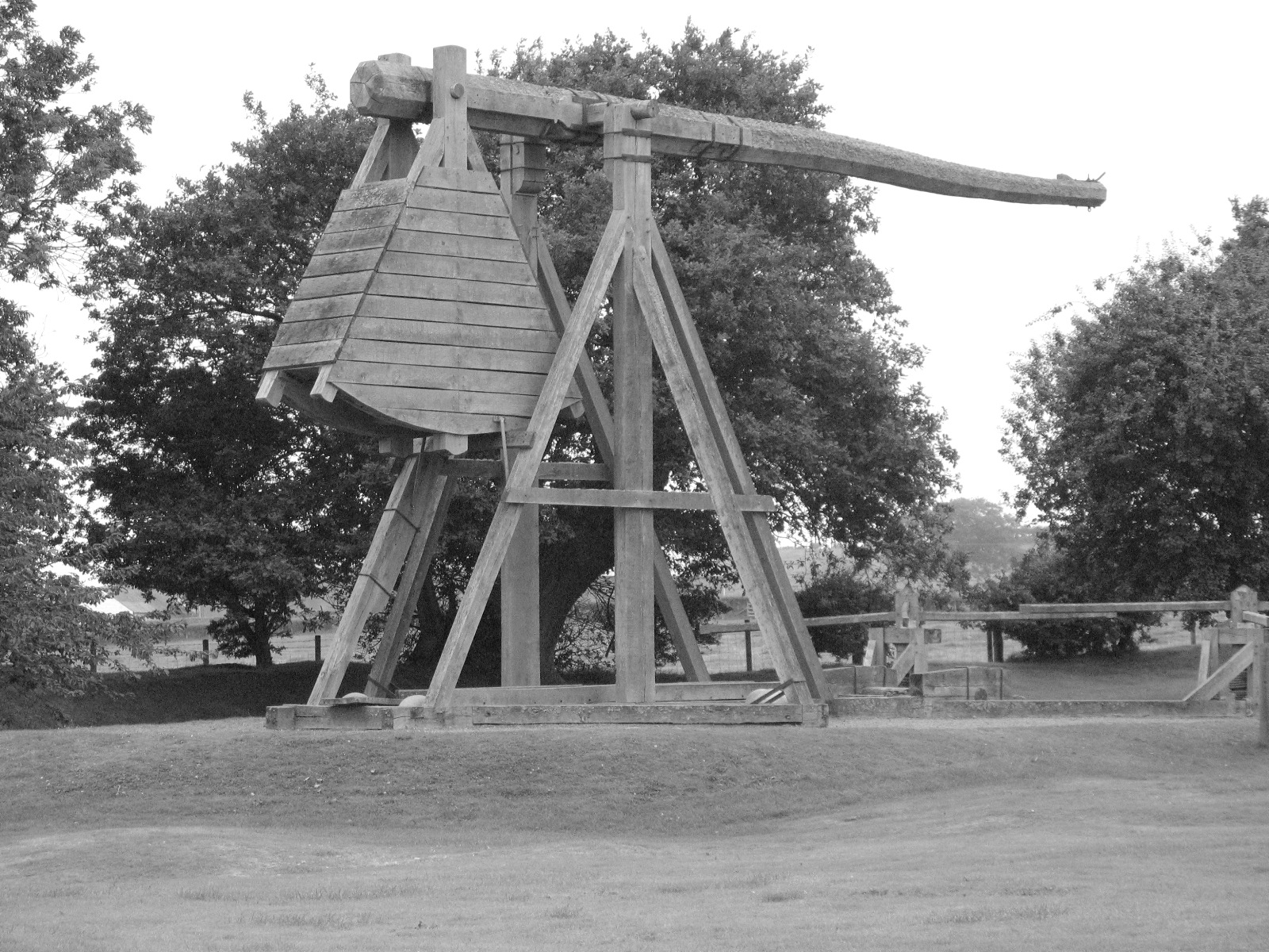 The trebuchet stands on the grounds of Caerlaverock Castle.